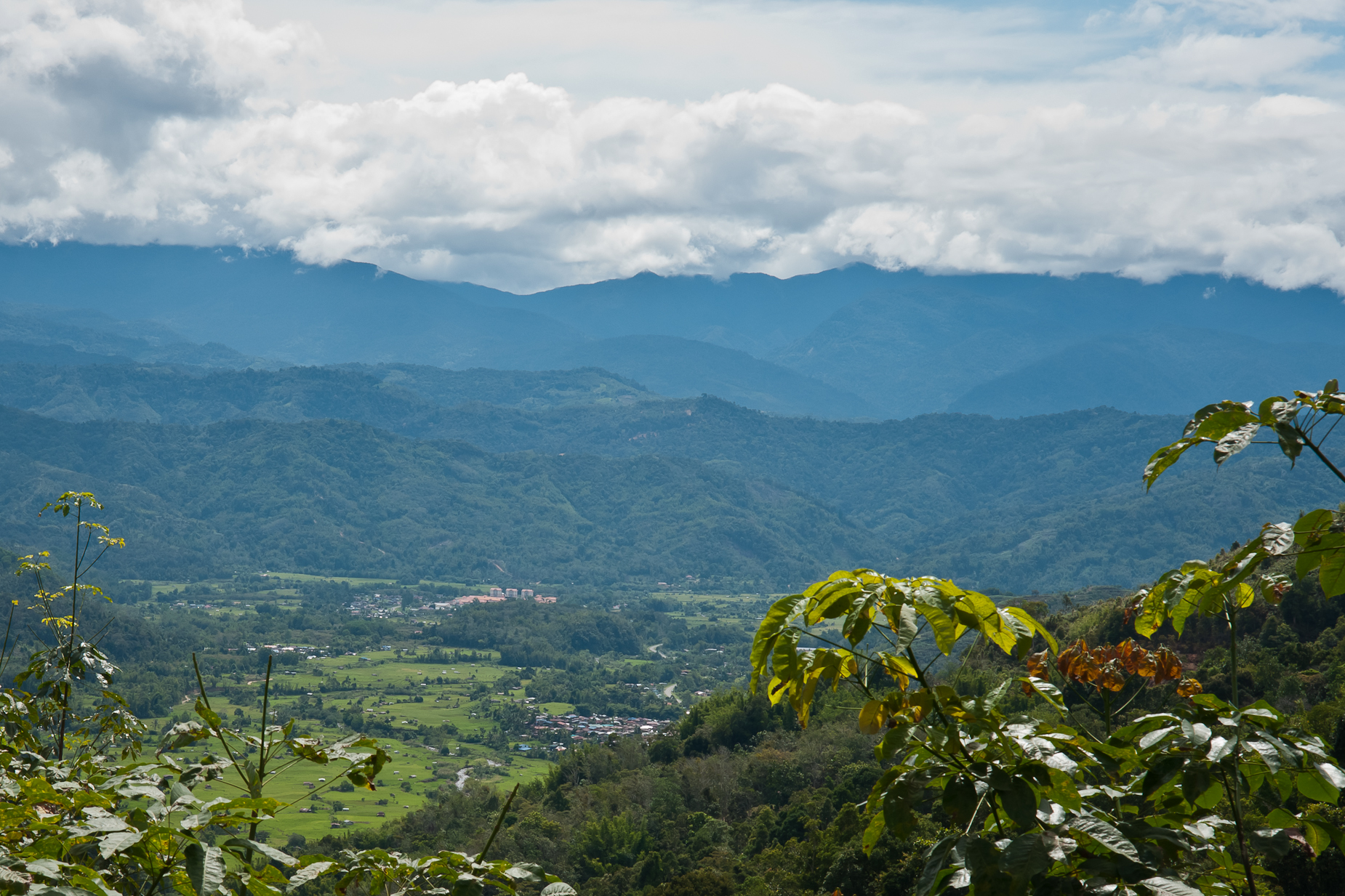 Tambunan: View from the Crocker Ranges to Kampung Sunsuron, north of Tambunan